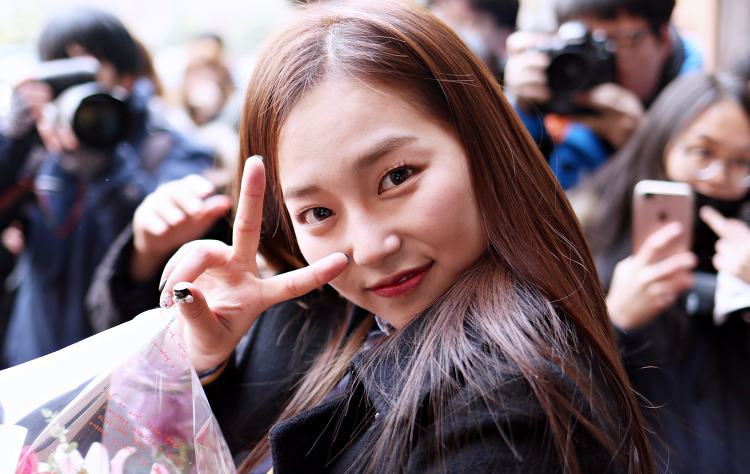 170207 CLC Jang Ye-eun at SOPA Graduation